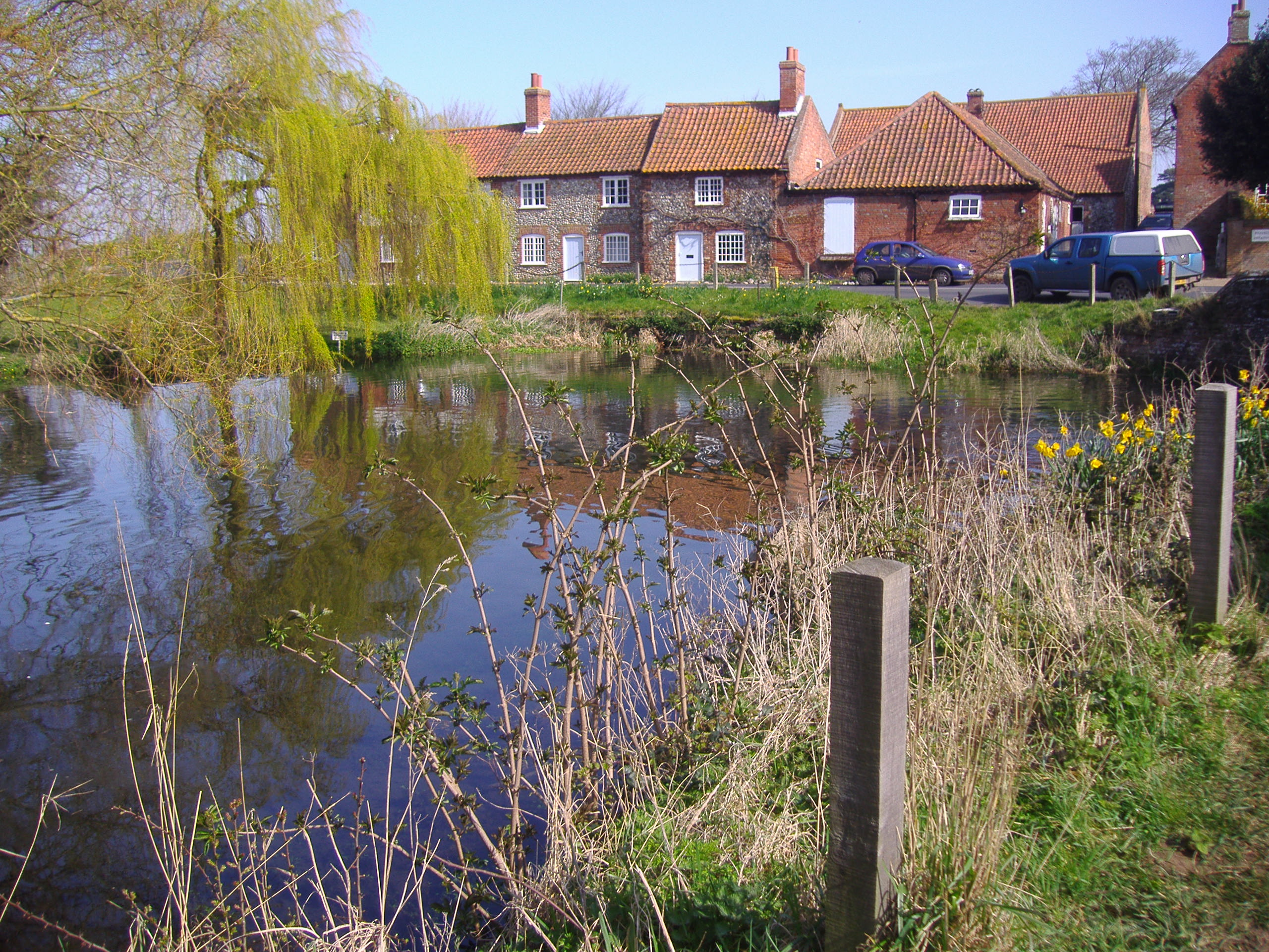 A Digital Photograph of the River Burn